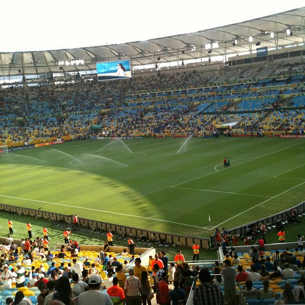 Maracanã: Confederations Cup Brazil 2013: Mexico x Italy